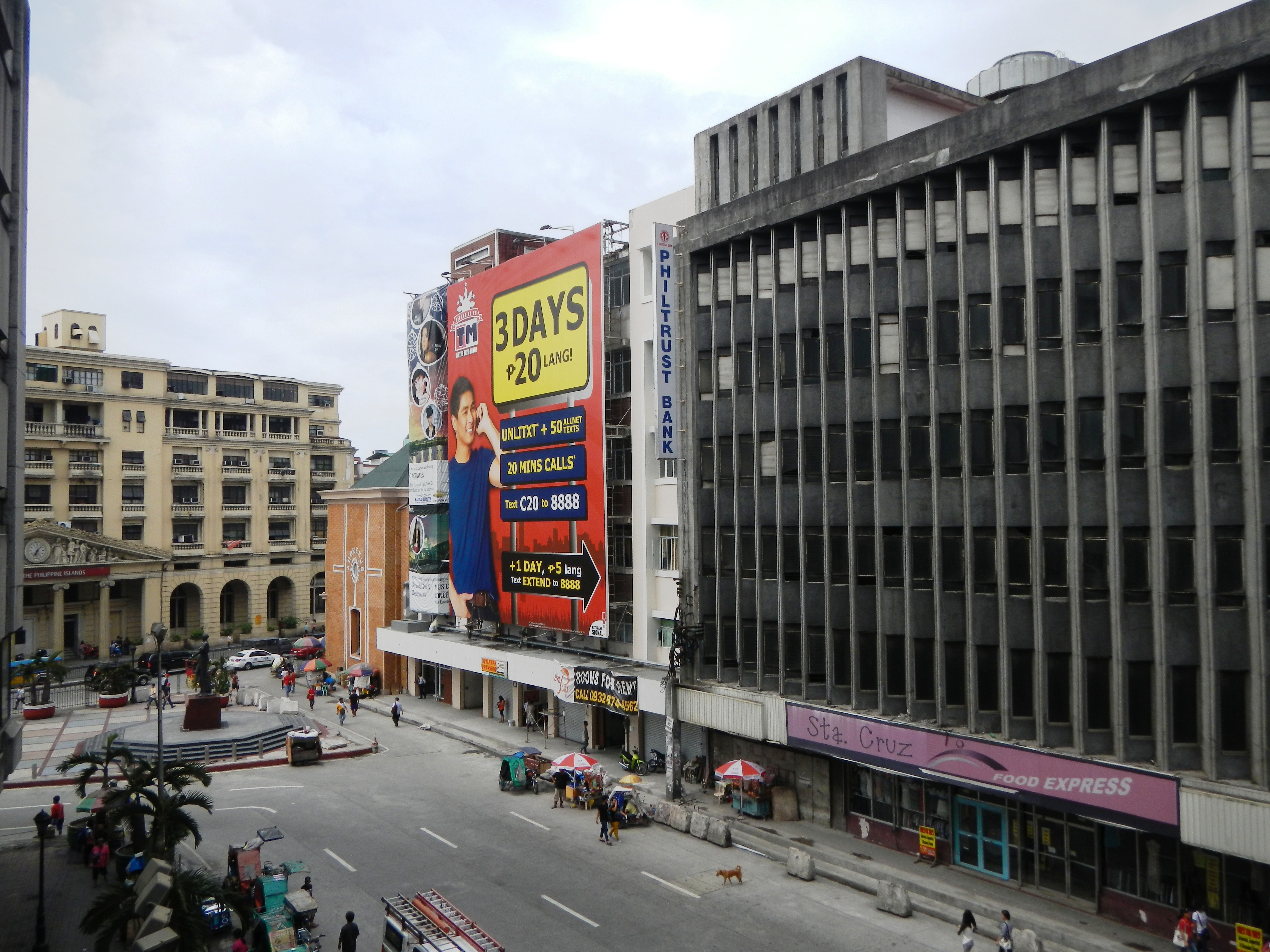 Upload Wizard photos - Supreme Court of the Philippines[1], Andres Narvasa[2], Hyundai Motor Company[3] at EDSA Caloocan City, Balintawak LRT, Santa Cruz, Manila[4], Arsenio Lacson [5] statue, at Santa Cruz, Manila, in Plaza Lacson, Bank of the Philippine Islands[6] branch at Escolta Street [7], Manila originally known as Roman Santos Building, former head office of Prudential Bank included in the - List of historical markers in the Philippines[8] and the 1608 Church of Santa Cruz, Manila - Sta. Cruz Parish Church (Plaza Sta. Cruz St. Our Lady of Pillar Parish Sta Cruz Parish Sta. Cruz VIicariate of San Jose de Trozo 1912 Rizal Ave. Santa Cruz, Manila[9] [10] Coordinates: 14°35'57"N 120°58'49"E [11][12]; it belongs to the Roman Catholic Archdiocese of Manila[13] List of religious buildings in Metro Manila[14] Our Lady of Pillar Parish Church of Santa Cruz [15] Santa Cruz Church is essentially Baroque and somewhat reminiscent of the Spanish-built mission churches in Southern California.[16]).